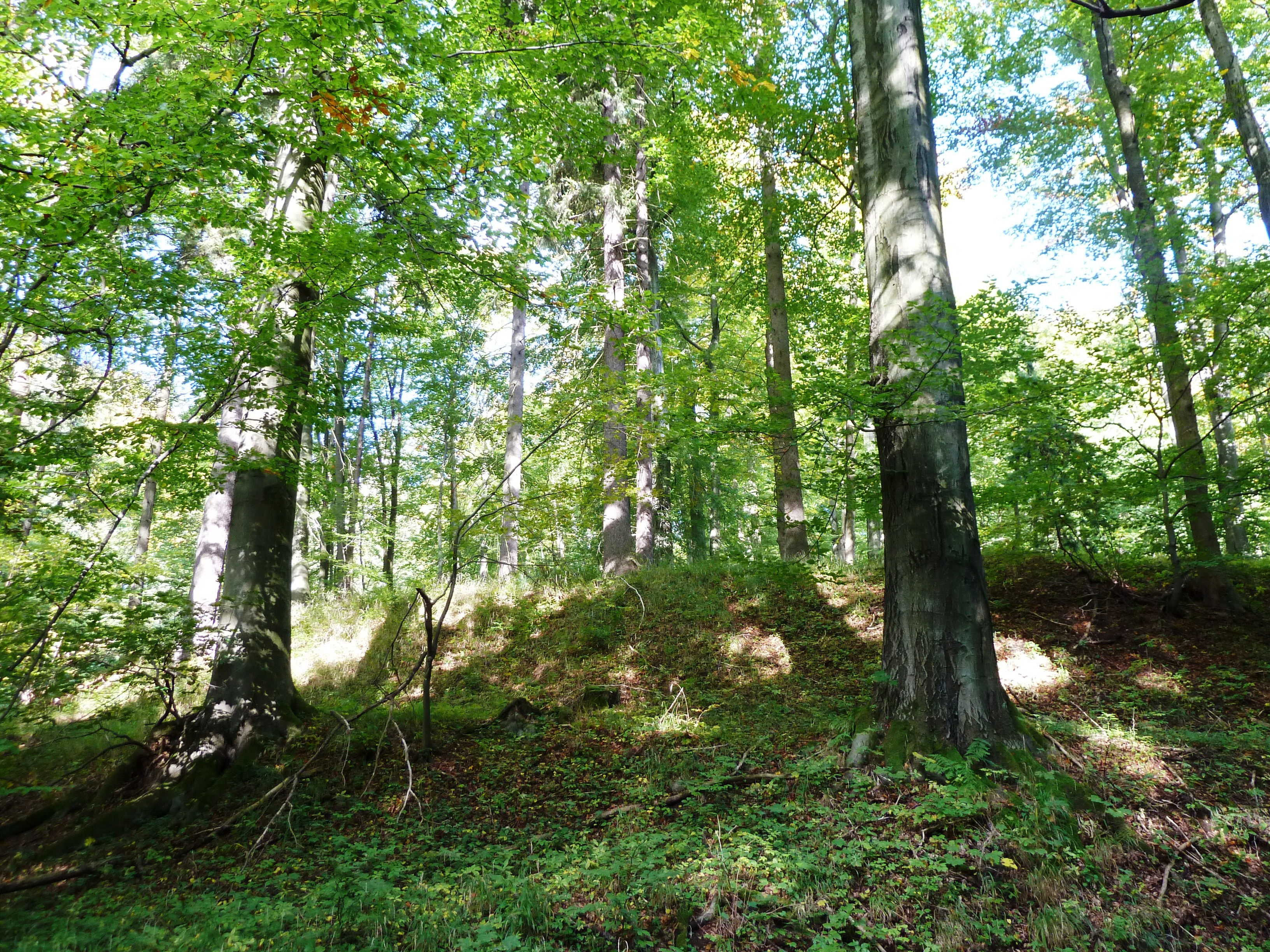 Nature reserve "Vápenka" near Krásná Lípa (northern Moravia, Czech Republic)